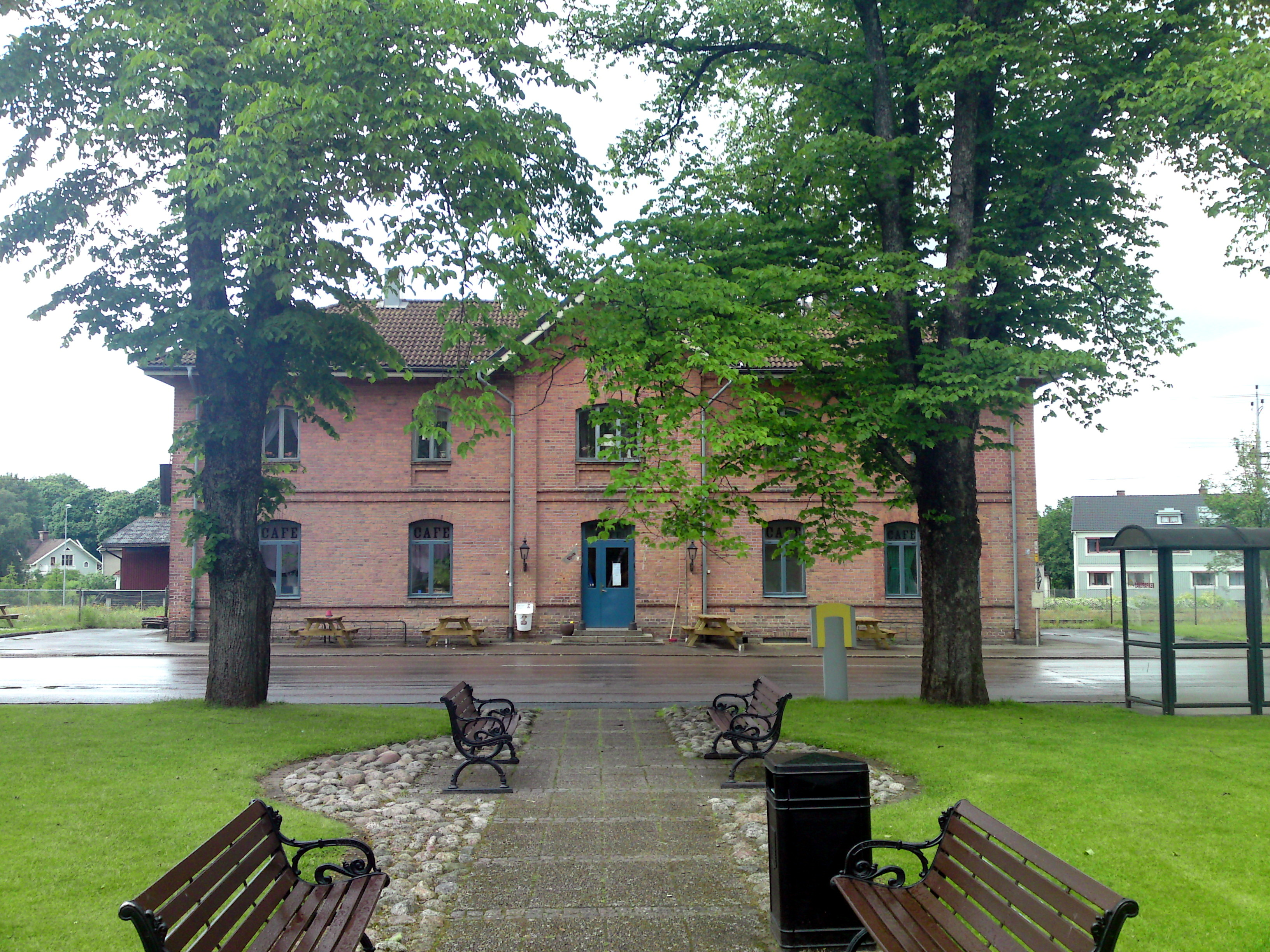 Stockaryd's station eleven kilometers south of Sävsjö, Småland